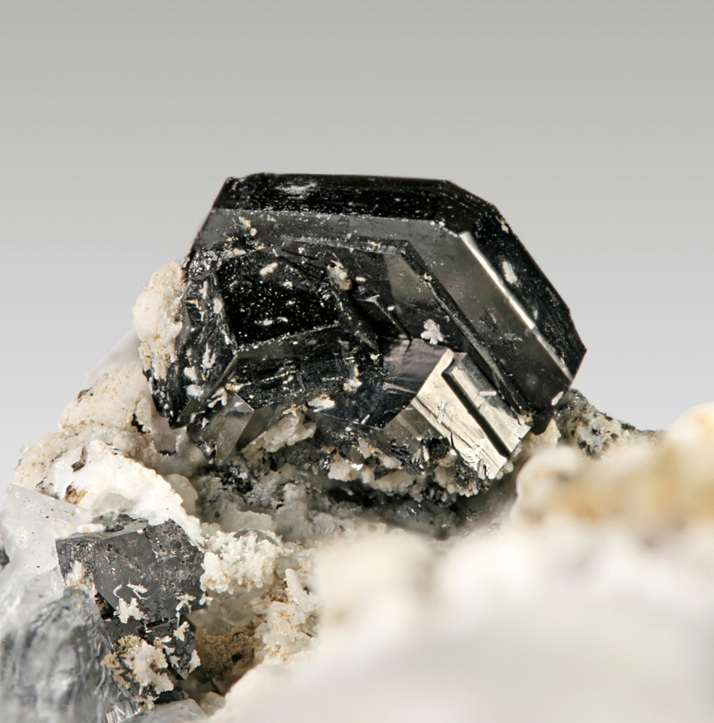 Ilmenite Locality: Poudrette quarry (Demix quarry; Uni-Mix quarry; Desourdy quarry), Mont Saint-Hilaire, Rouville RCM, Montérégie, Québec, Canada The ilmenite is ~ 8 mm wide. Found August 1998.